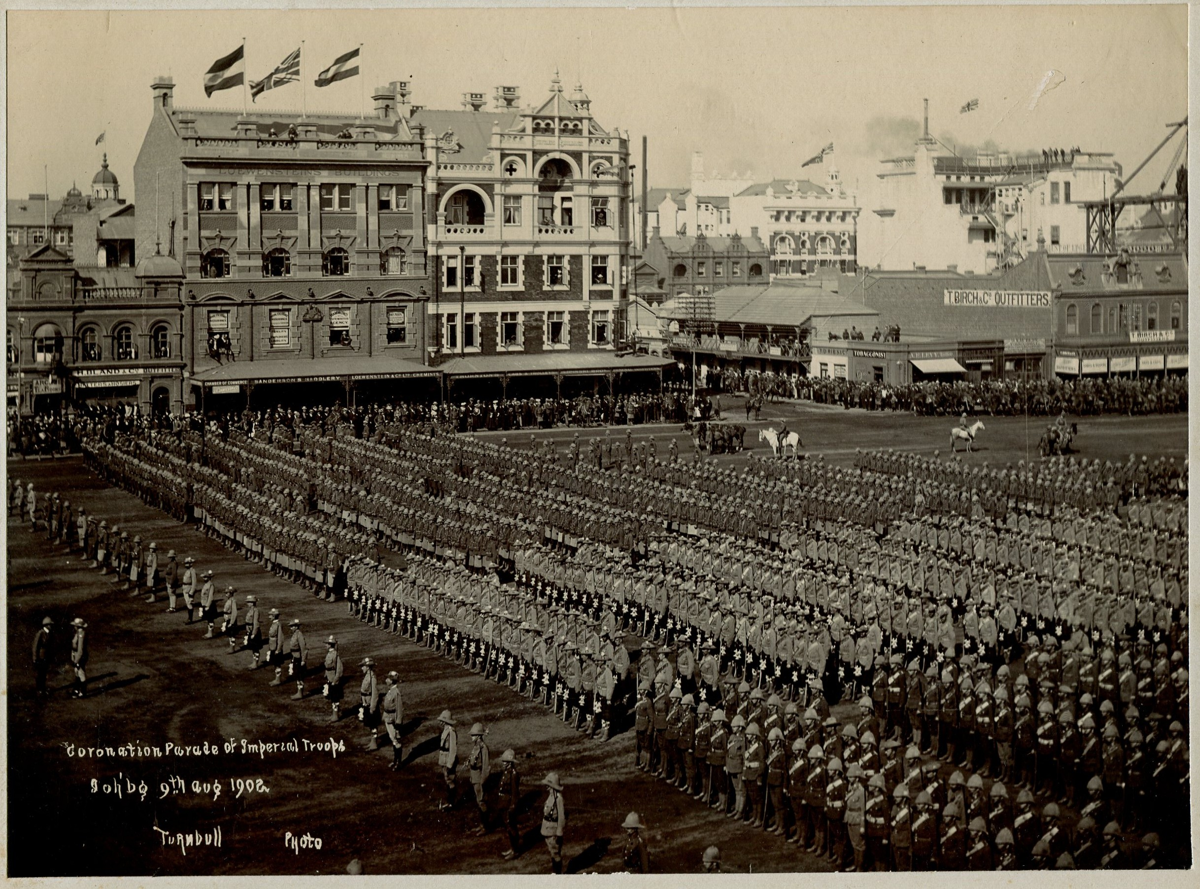 The Market square in 1902 now known as Beyers Naude Square in th city of Johannesburg. These are works donated by the Johannesburg Heritage Foundation.